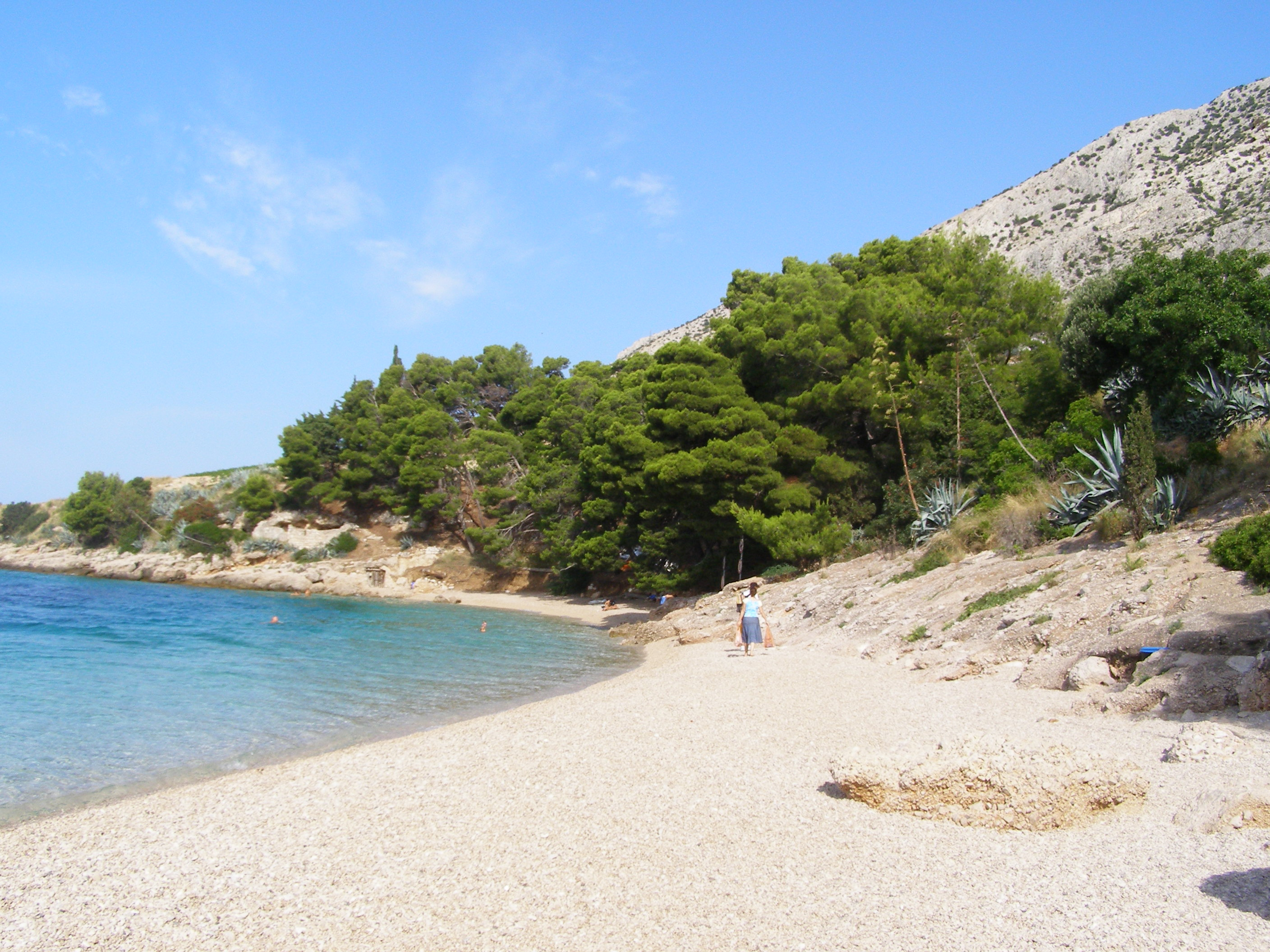 Beach Murvica, Brac, Croatia